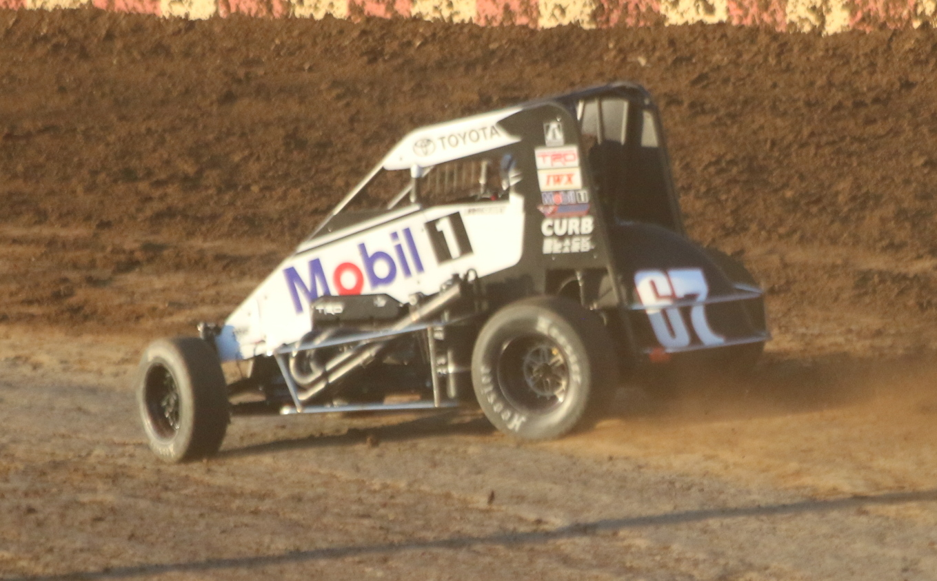 Logan Seavey's POWRi midget car at Angell Park Speedway.